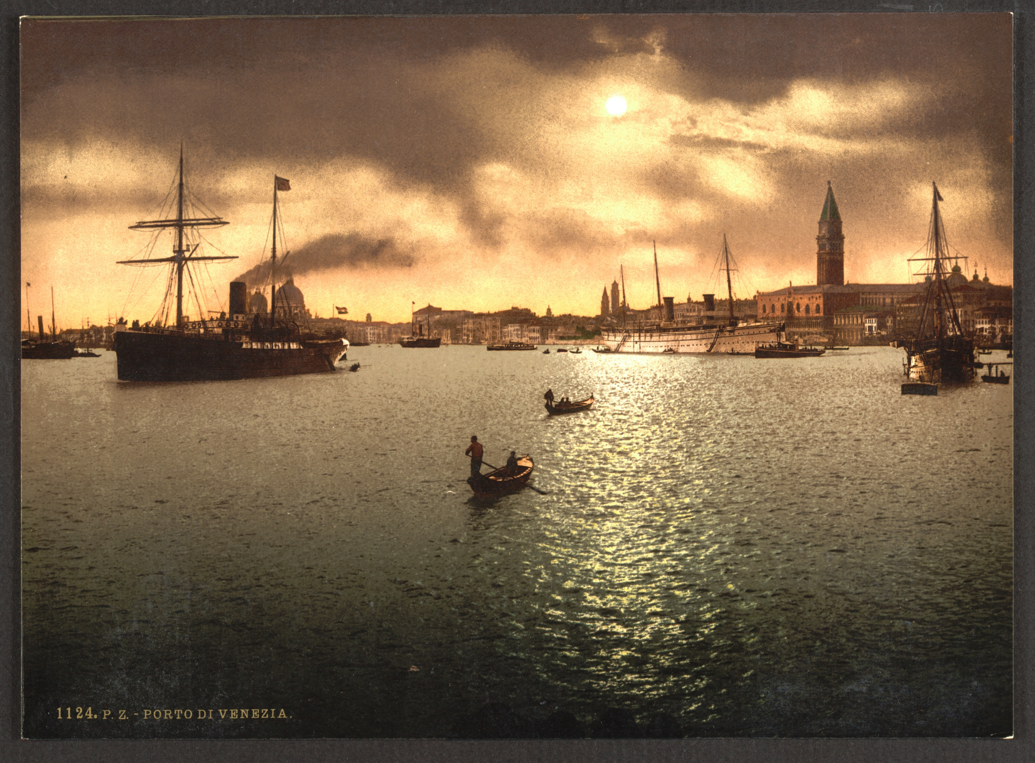 More information about the Photochrom Print Collection is available at Print no. "1124".; Title from the Detroit Publishing Co., Catalogue J-foreign section, Detroit, Mich. : Detroit Publishing Company, 1905.; Forms part of: Views of architecture and other sites in Italy in the Photochrom print collection.